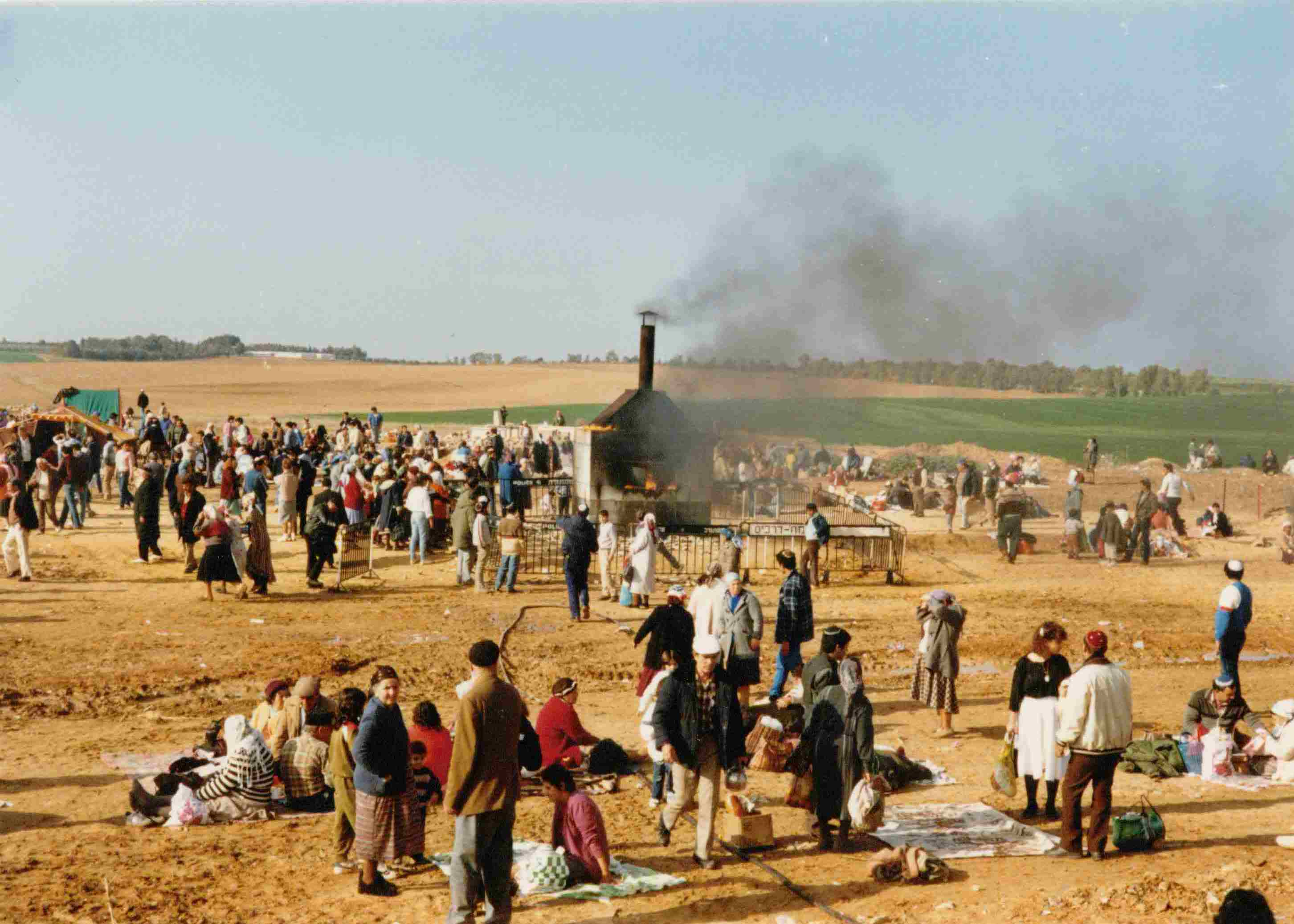 The Hilula - a public celebration in memory of the saint Baba Saly (Rabbi Israel AbuHtzera), before the building around the grave was built